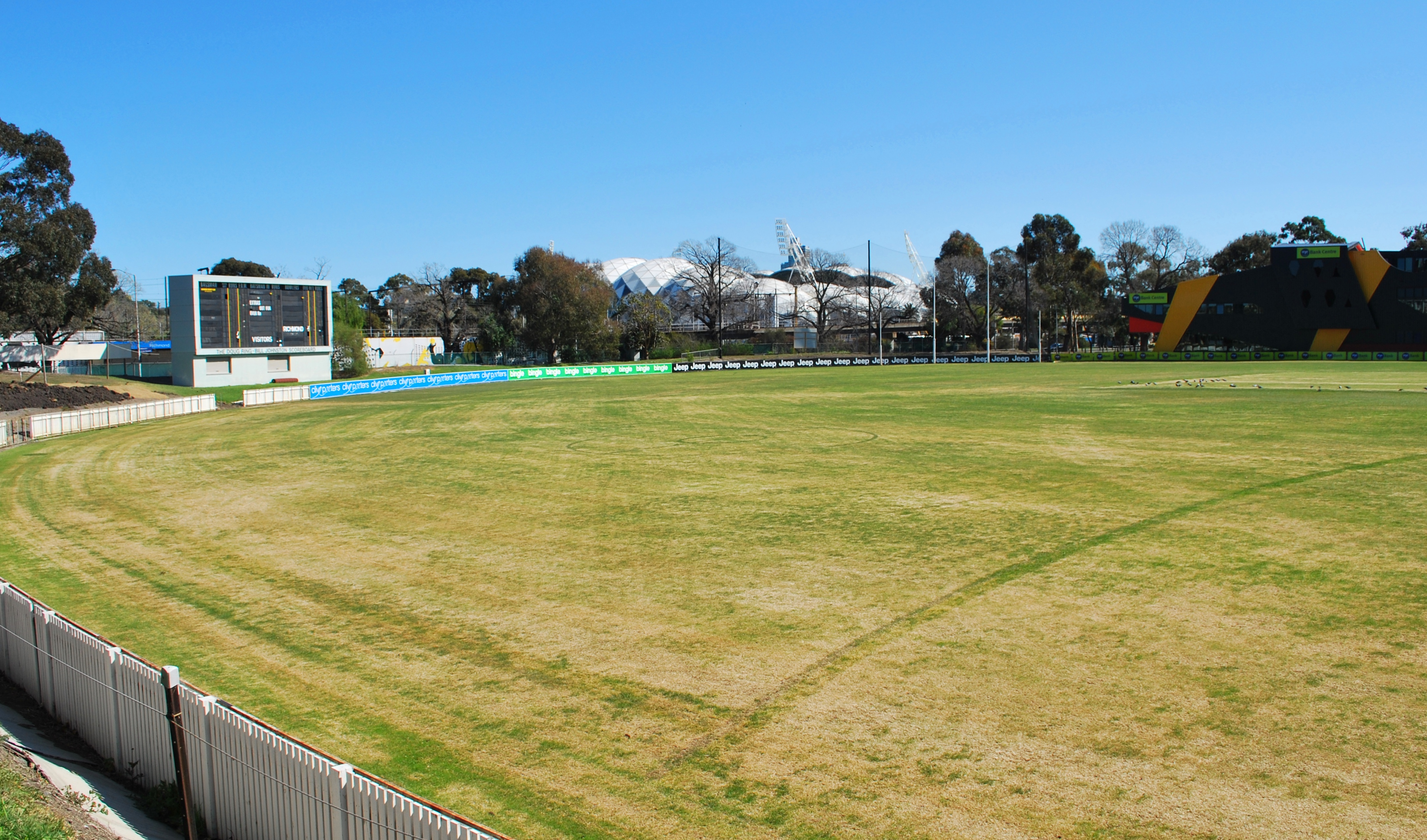 Punt Road Oval in Richmond, Victoria